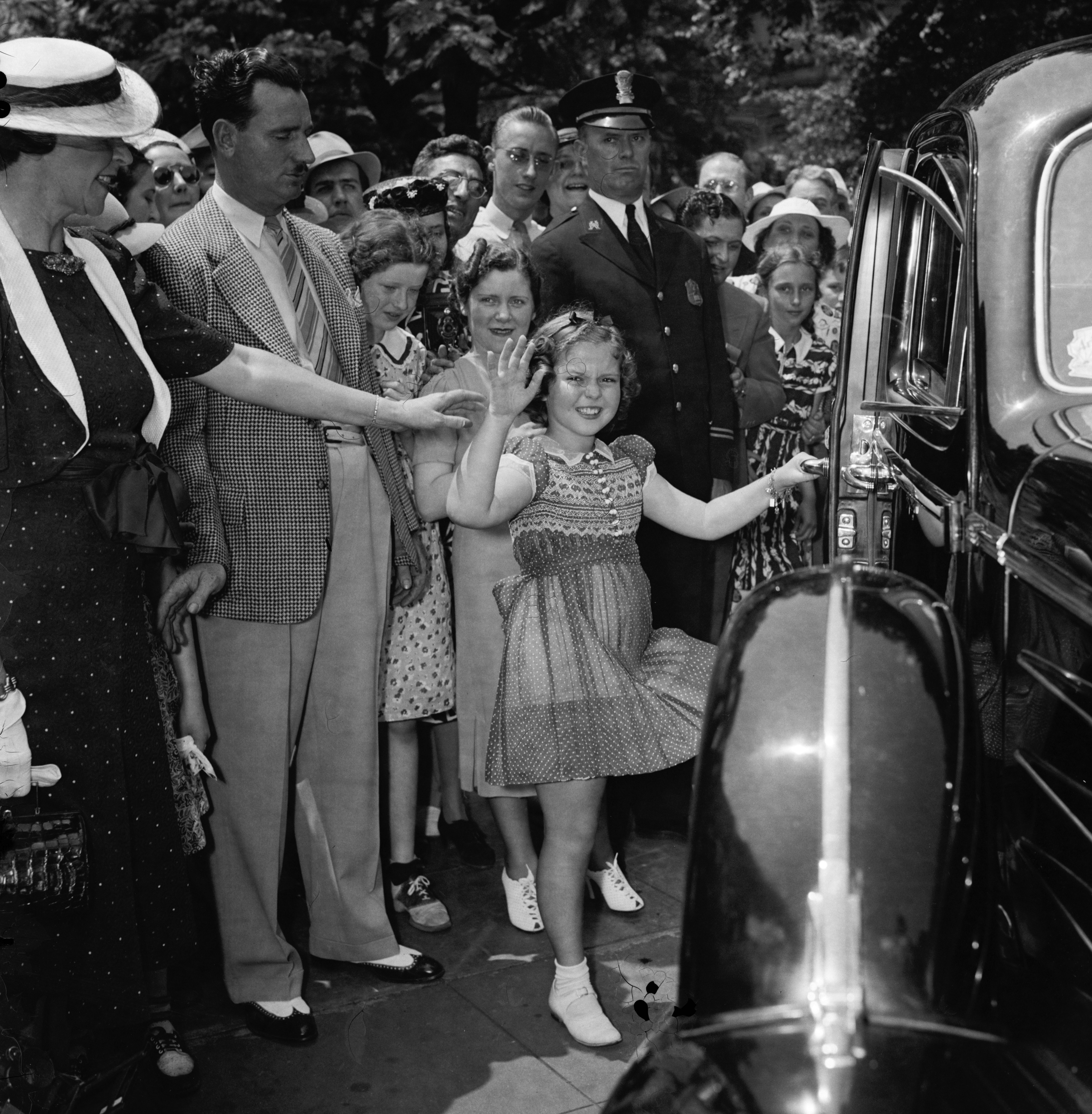 Shirley Temple Original caption Shirley sees her old friend the president. Washington, D.C., June 24. Shirley Temple leaving the White House offices of the president today after a very important conference with the President. Shirley told the President about losing a tooth last night, and he told her about Sistie and Buzzie losing their teeth, Shirley expects to be in Washington a week checking on the affiars of government with different government officials, 6/24/38